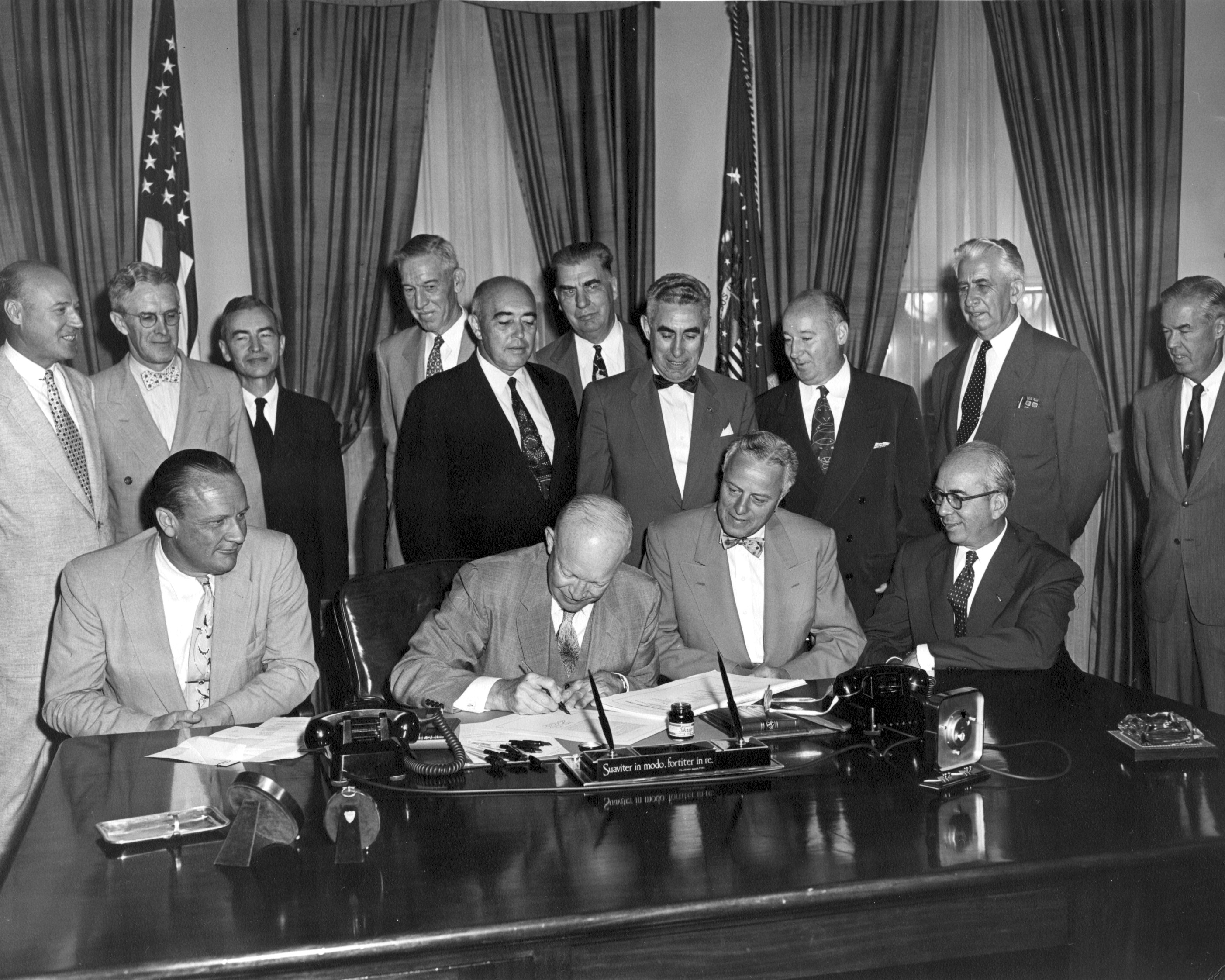 President Eisenhower signs H.R. 9757, an act "to amend the Atomic Energy Act of 1946." The signing was witnessed in his office by various senators, congressmen and members of the Atomic Energy Commission, August 30, 1954. Among the notable people include Lewis L. Strauss seated at far right, and Henry DeWolf Smyth standing second from left.